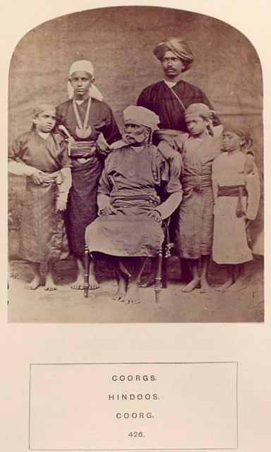 Coorgs, Hindus, Coorg. (family:Grandfather,Father and Grandsons) (from NY public library)